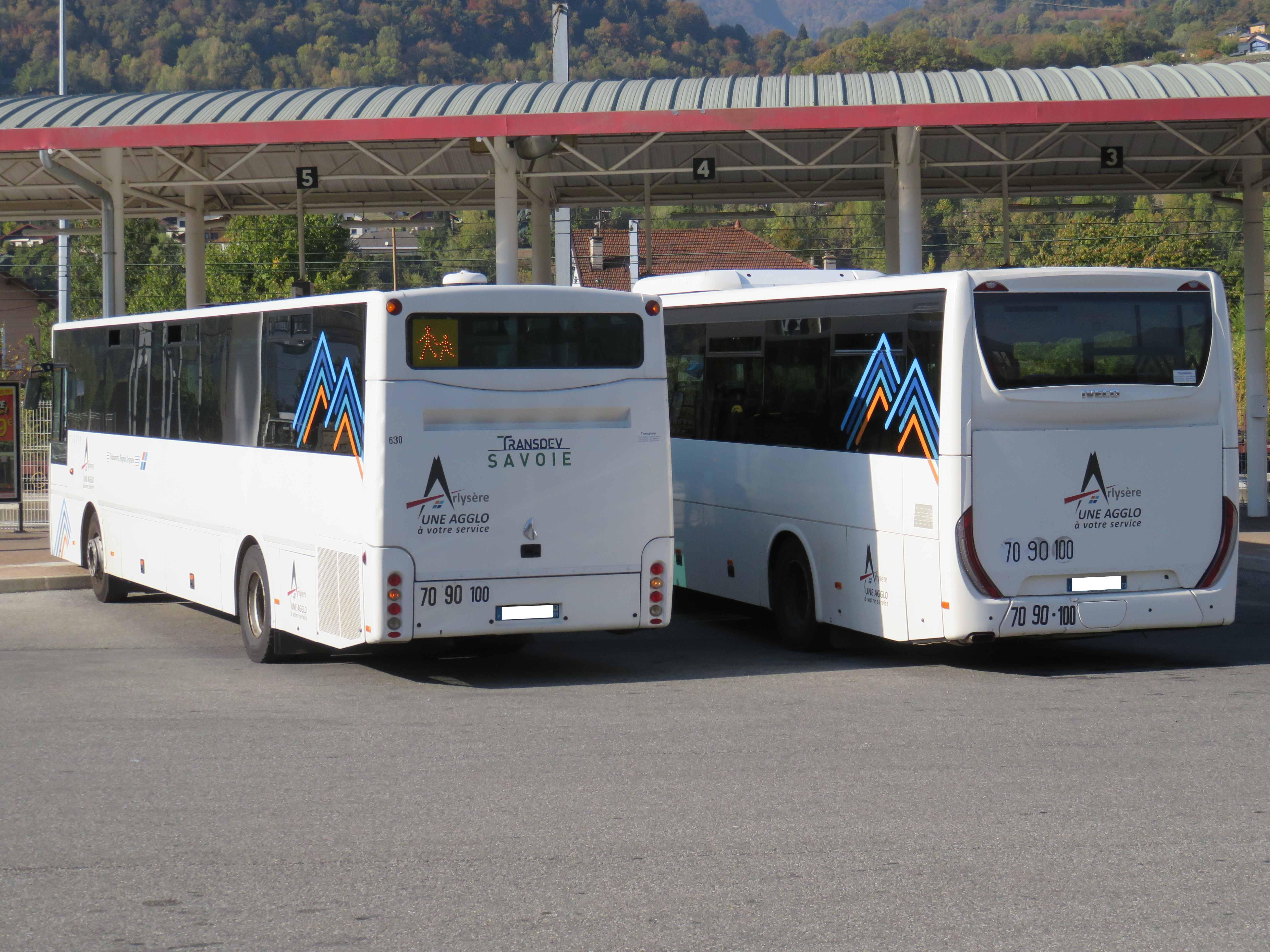 A Fast Starter (n°630 of Transdev Savoie) and an Iveco Crossway (n°6998 of Transdev Savoie) parked at the bus station (Albertville, France) on October 18, 2018.